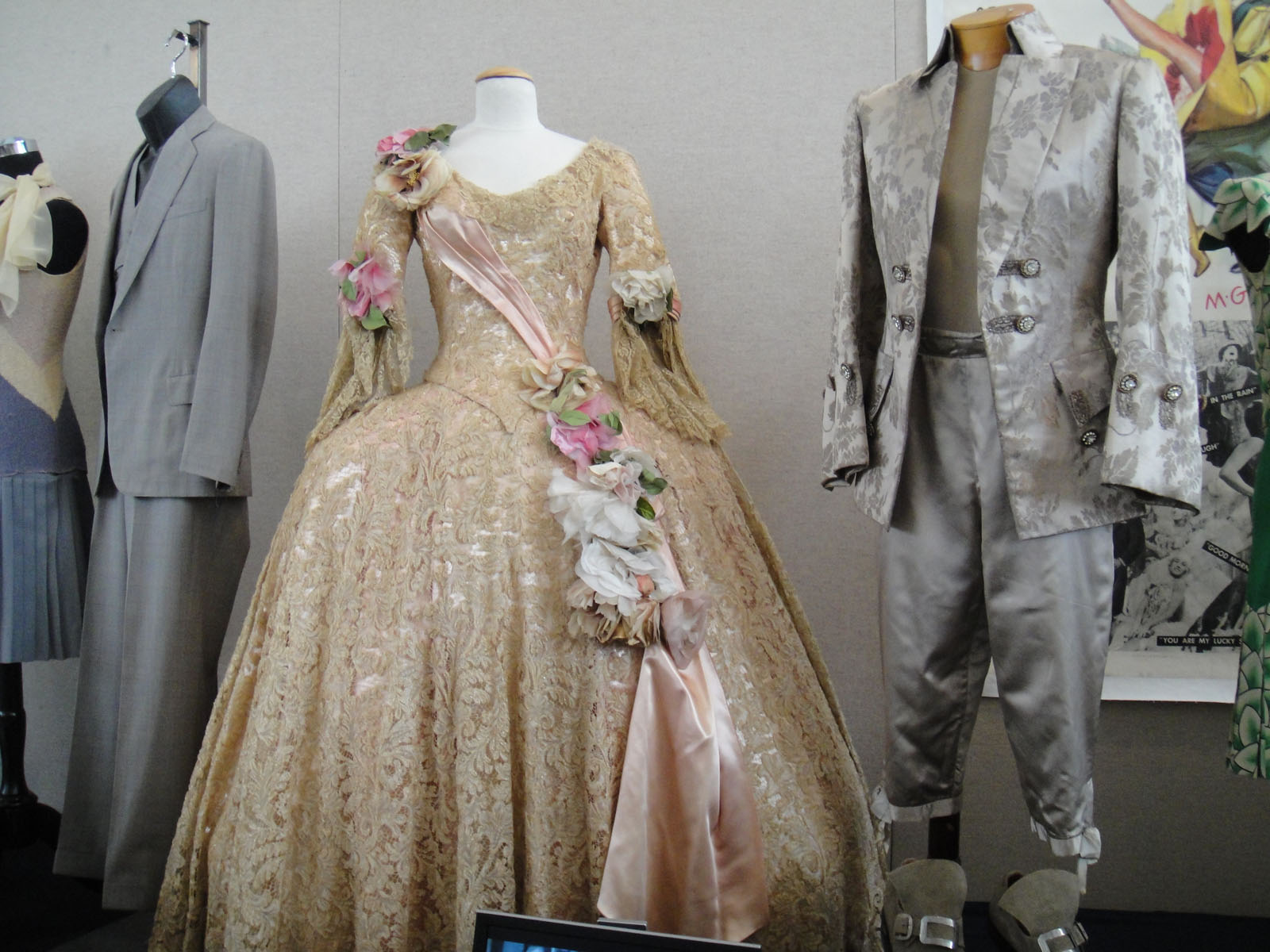 Jean Hagen and Gene Kelly costumes from "Singin' in the Rain" at the Debbie Reynolds Auction Breaks Up Historic Hollywood Collection (The Paley Center for Media in Beverly Hills, Los Angeles, CA, USA).